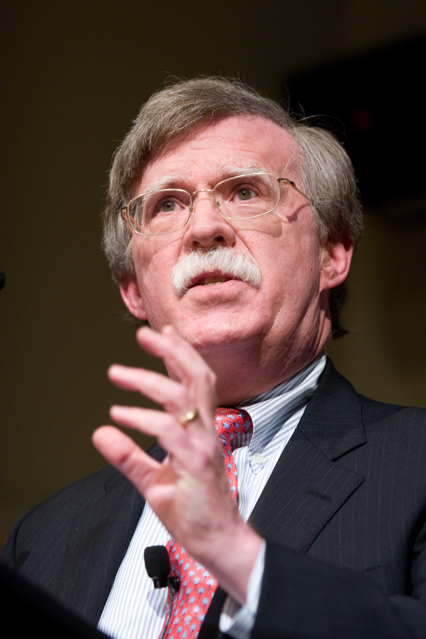 John Bolton, US Diplomat, speaks at Brown University 2-21-08.